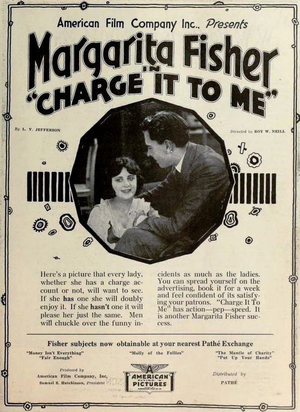 Ad for the American film Charge It to Me (1919) with Margarita Fischer and Emory Johnson, on page 617 of the May 3, 1919 Moving Picture World.